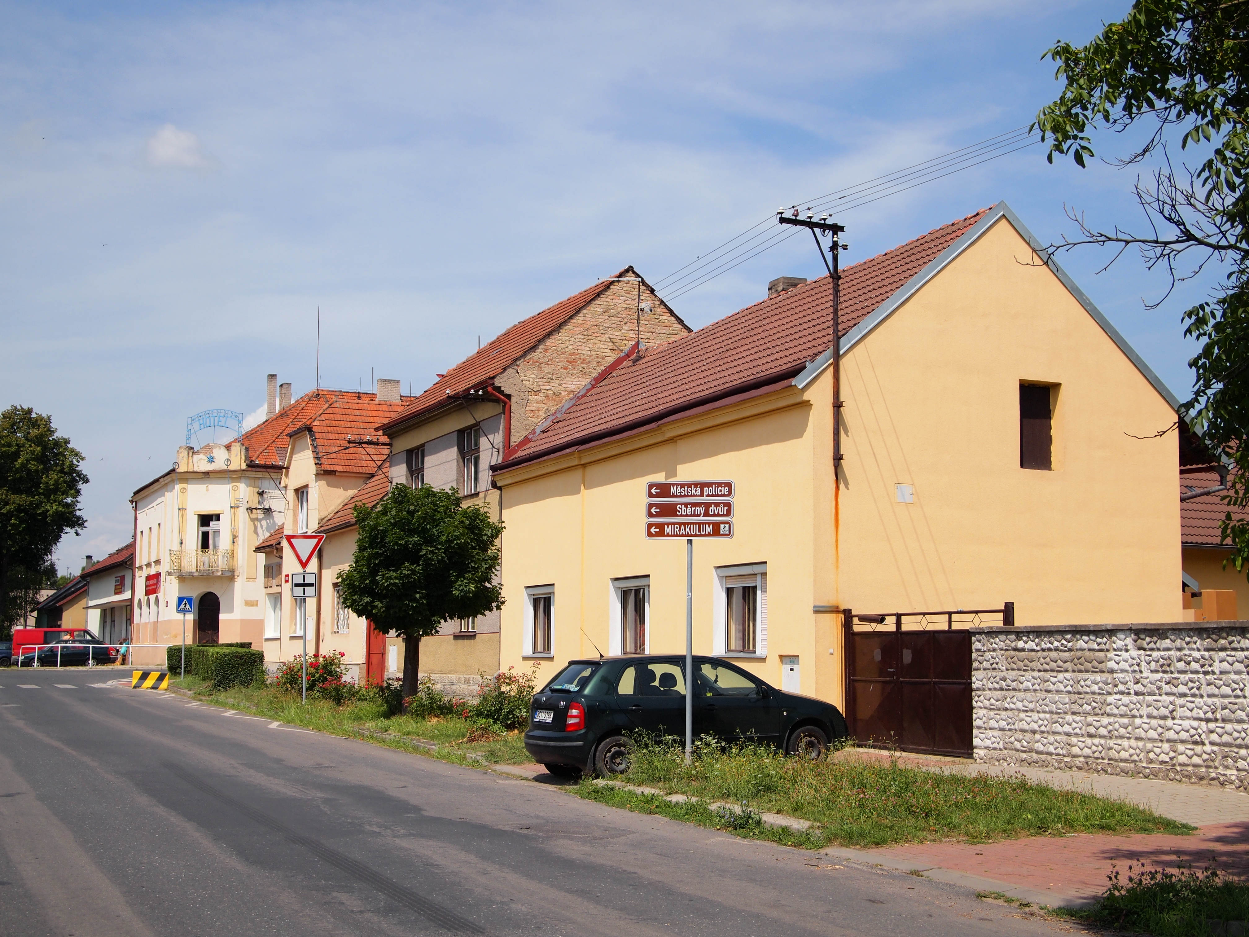 Street 5. května in Milovice, Czech Republic. This photograph was taken with an Olympus E-PL1